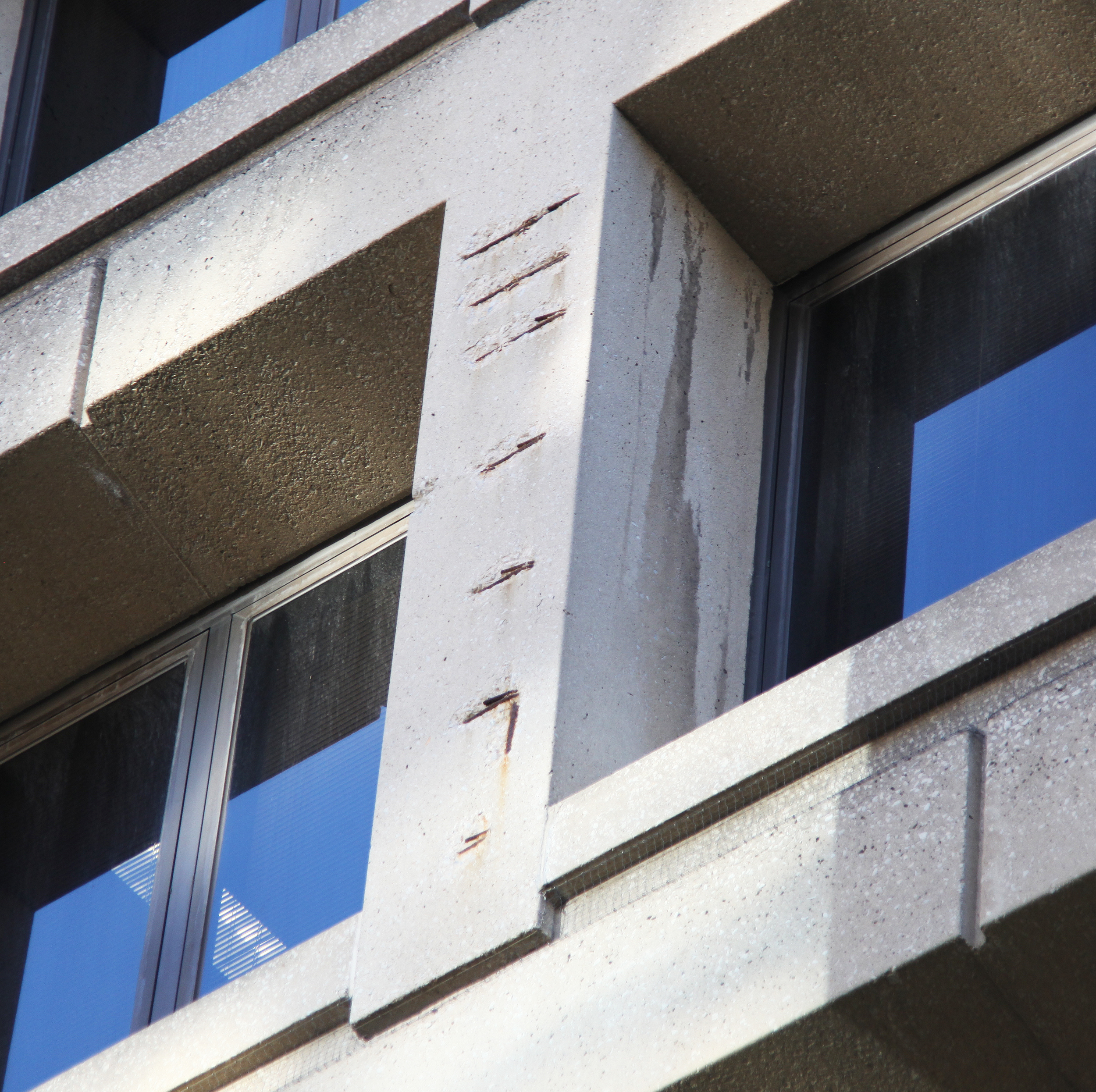 The east facade of the J. Edgar Hoover Building (the headquarters of the Federal Bureau of Investigation) on 9th Street NW in Washington, D.C., in the United States. Chunks of concrete have broken free of the facade, exposing the steel reinforcing rods in the concrete to the elements. Wire netting below the ledge helps to contain pieces of concrete which might break free and injure pedestrians below. The office building, constructed in the Brutalist style, began construction in 1967 and was completed in 1975. Poorly designed, poorly constructed, and poorly maintained, chunks of concrete began breaking off the upper floors in 2006. A contractor removed loose pieces, and hung construction netting around the upper floors and at other points on the building to protect pedestrians on the busy streets below.